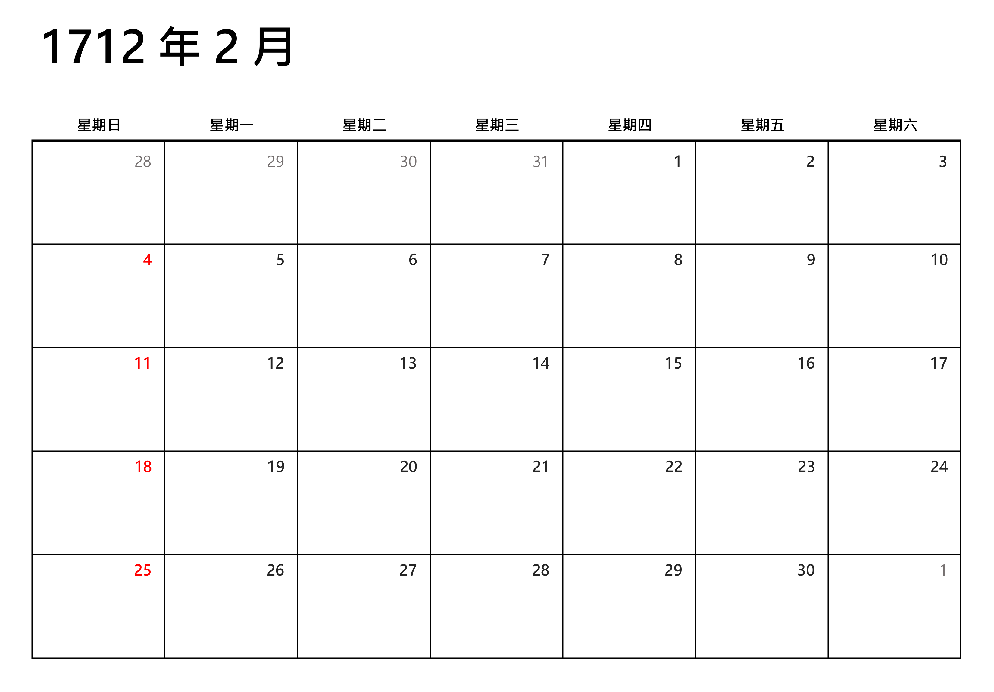 30th February in Swedish Calendar (Chinese characters)